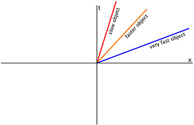 Showing word lines at different velocity